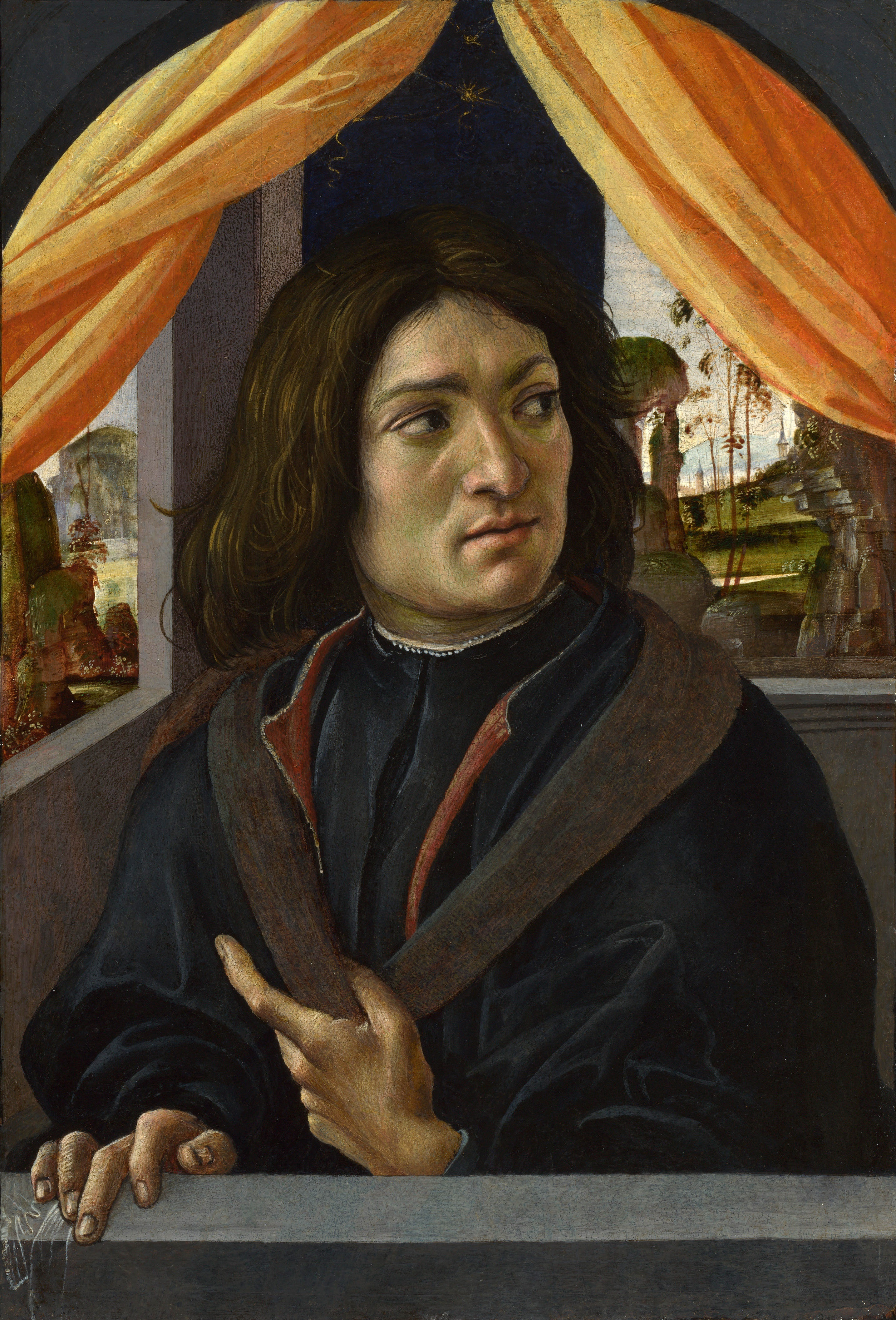 Portrait of a Man